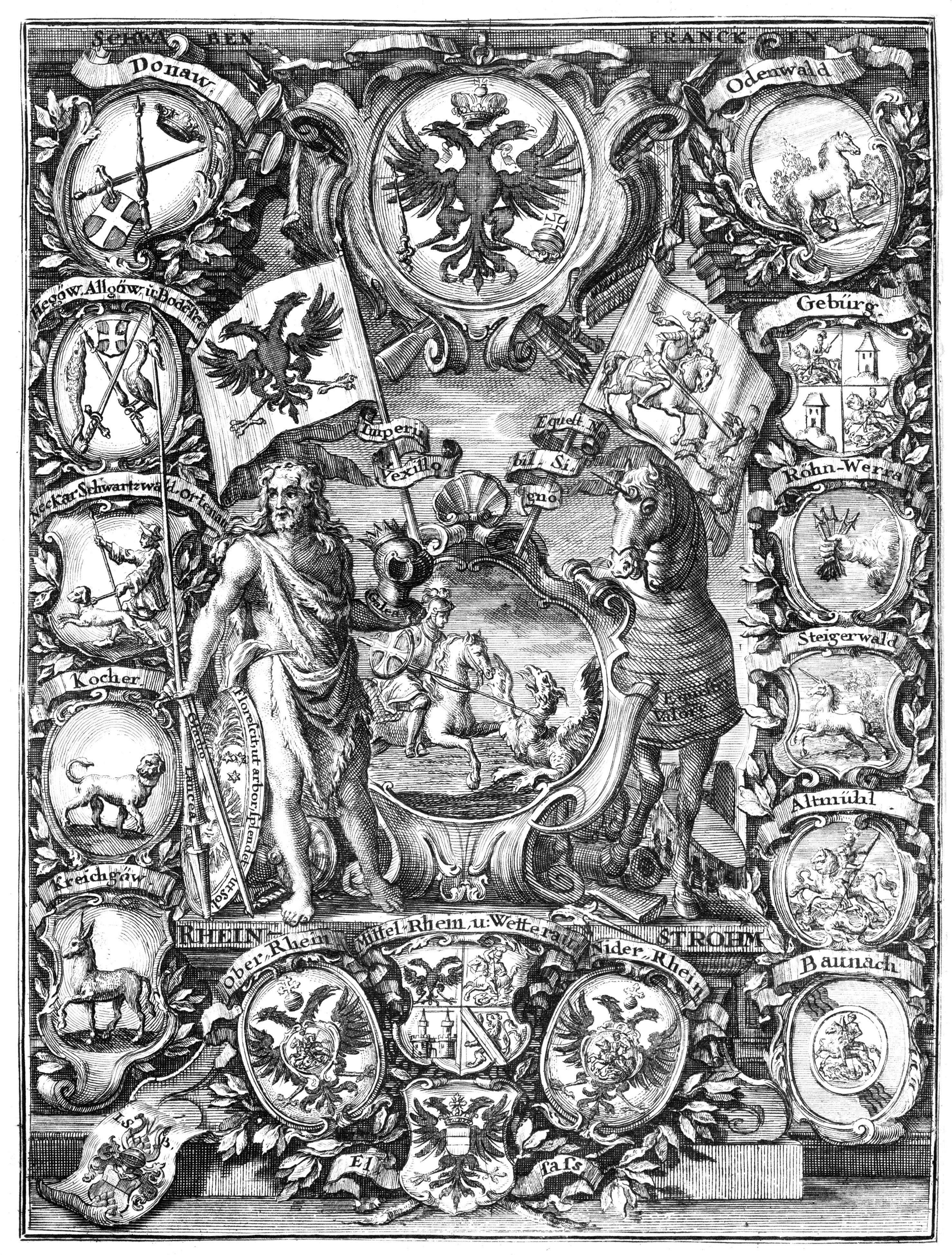 engraving representing the various circles of the Reichs-Ritterschaft